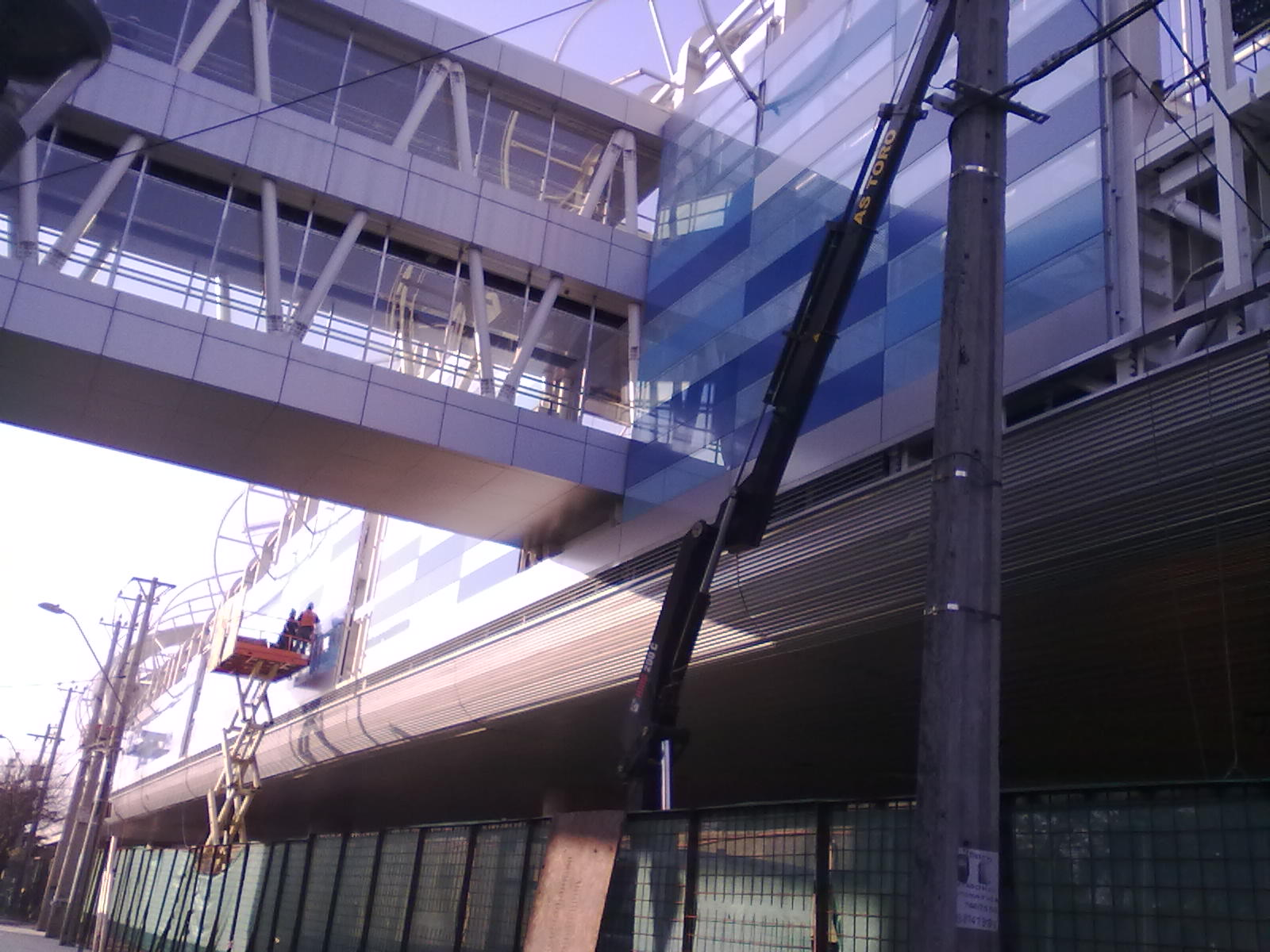 View of Laguna Sur station of the Santiago Metro.